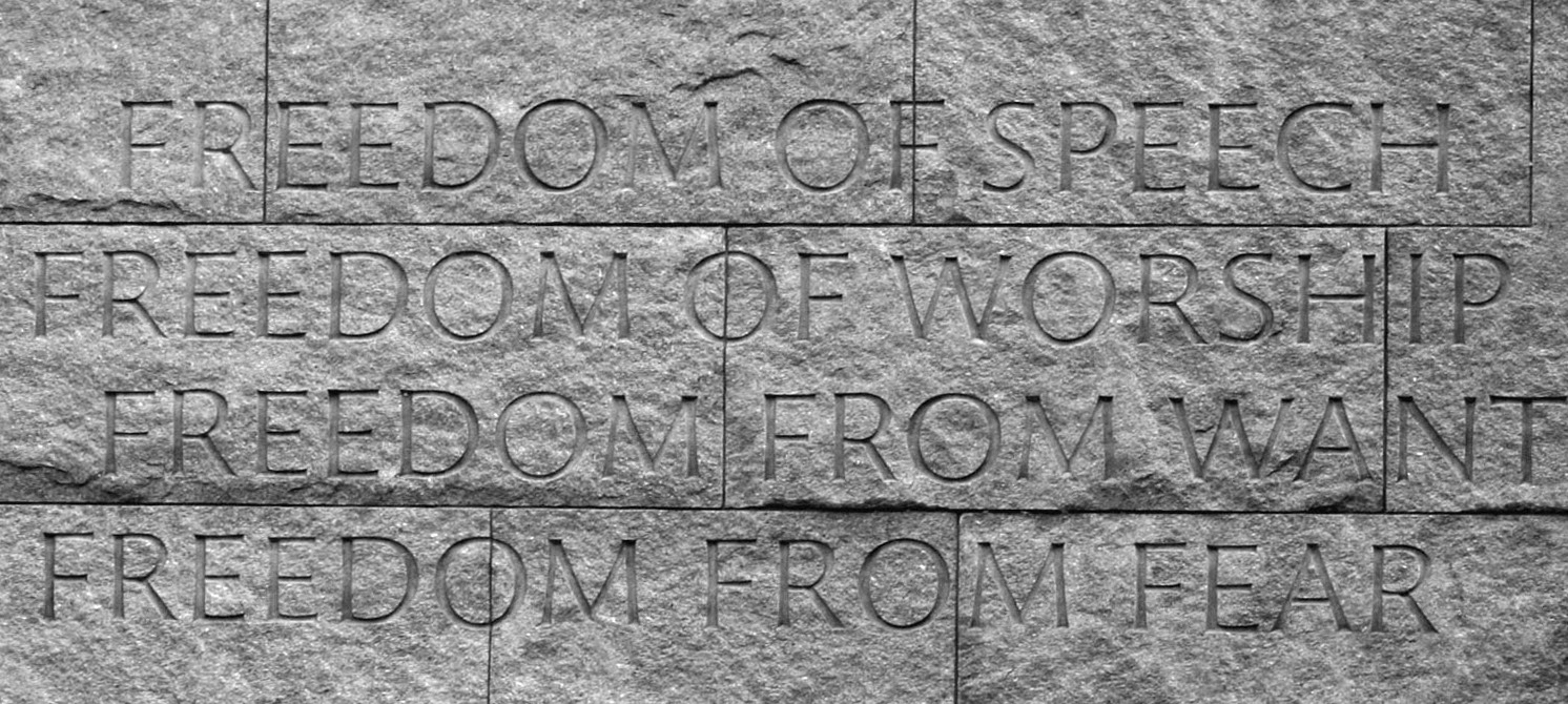 In his 1941 State of the Union Address, as the nation contemplated the increasingly more inevitable prospect of being drawn into the war, President Roosevelt spelled out "Four Freedoms" as a reminder of what America must stand for. The speech delivered by President Roosevelt incorporated the following section: In the future days which we seek to make secure, we look forward to a world founded upon four essential human freedoms. The first is freedom of speech and expression - everywhere in the world. The second is freedom of every person to worship God in his own way - everywhere in the world. The third is freedom from want, which, translated into world terms, means economic understandings which will secure to every nation a healthy peacetime life for its inhabitants - everywhere in the world. The fourth is freedom from fear, which, translated into world terms, means a world-wide reduction of armaments to such a point and in such a thorough fashion that no nation will be in a position to commit an act of physical aggression against any neighbor - anywhere in the world. That is no vision of a distant millennium. It is a definite basis for a kind of world attainable in our own time and generation. That kind of world is the very antithesis of the so-called "new order" of tyranny which the dictators seek to create with the crash of a bomb. In 1943 during the Second World War, Illustrator Norman Rockwell completed the Four Freedoms series which was completed in seven months and resulted in him losing 15 pounds. The paintings were based on a speech by Franklin D. Roosevelt, who declared that there were four principles for universal rights: Freedom from Want, Freedom of Speech, Freedom to Worship, and Freedom from Fear. The paintings were published in 1943 by The Saturday Evening Post. The U.S. Treasury Department later promoted war bonds by touring the originals to 16 cities.